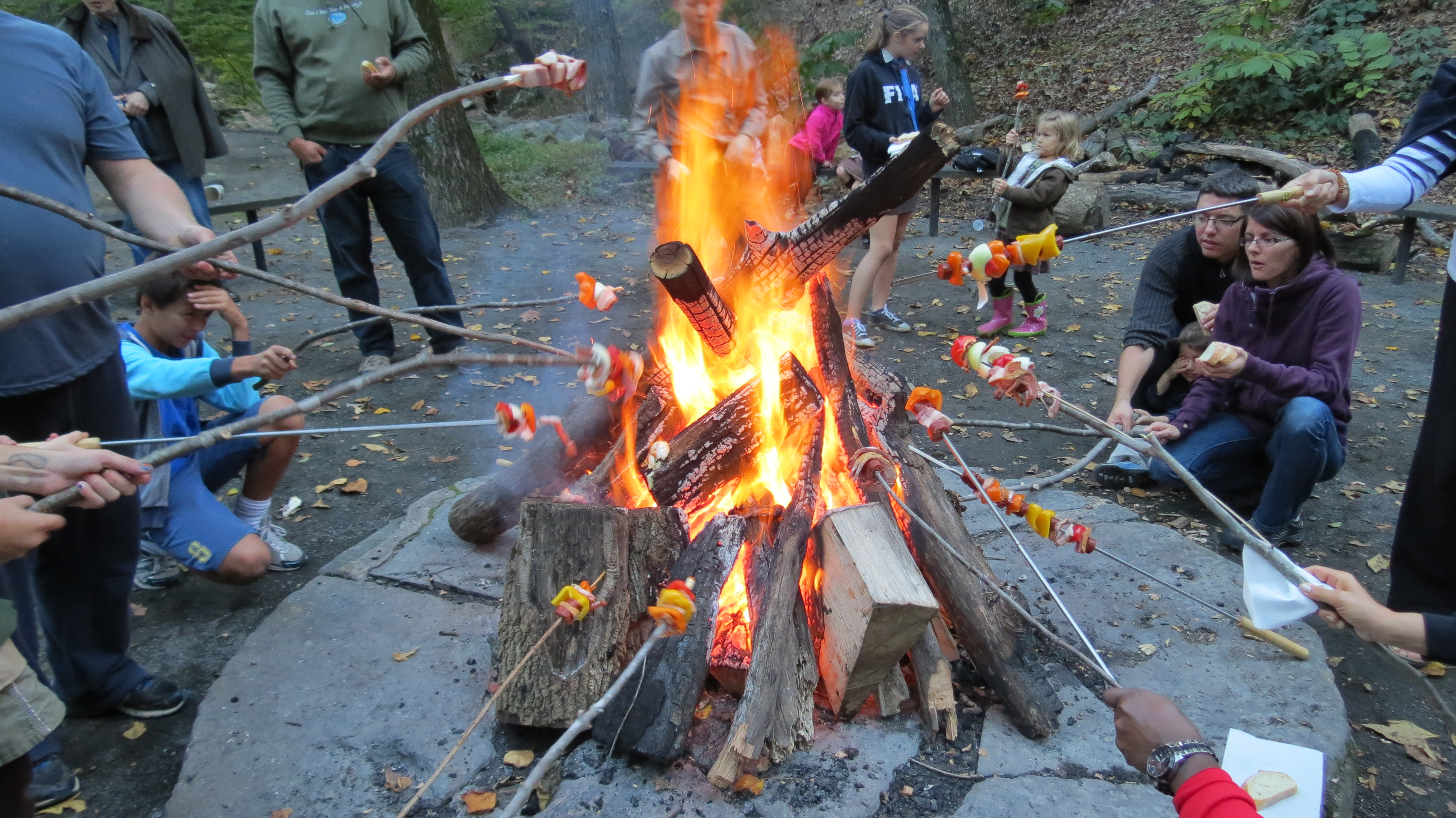 Hungarian Scouts of Washington Lubber Run Park Arlington, VA